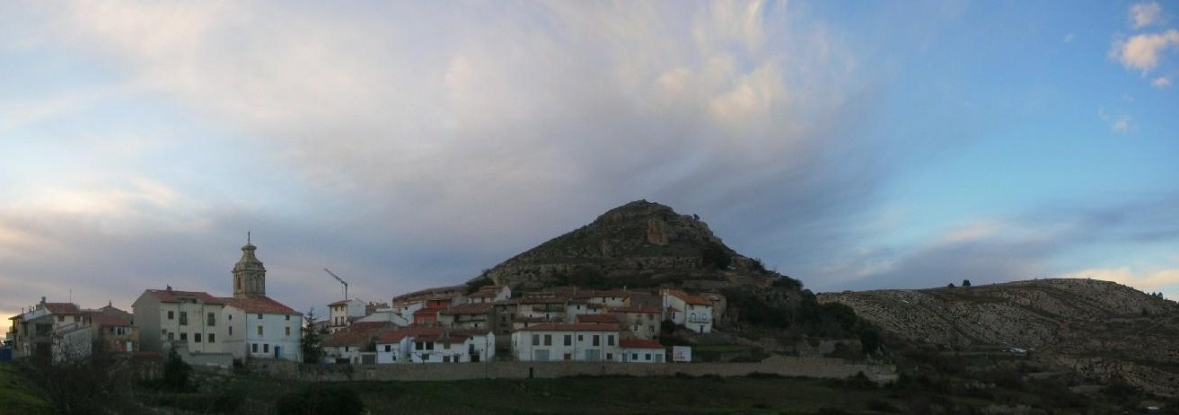 Castell de Cabres, almost abandoned village in els Ports de Beseit